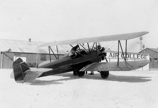 Catalog #: 00063909 Manufacturer: Command-Aire Designation: 5C3 Official Nickname: Notes: Repository: San Diego Air and Space Museum Archive